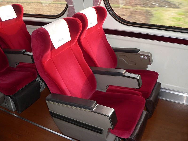 KORAIL Samaeul Exp. normal class seat